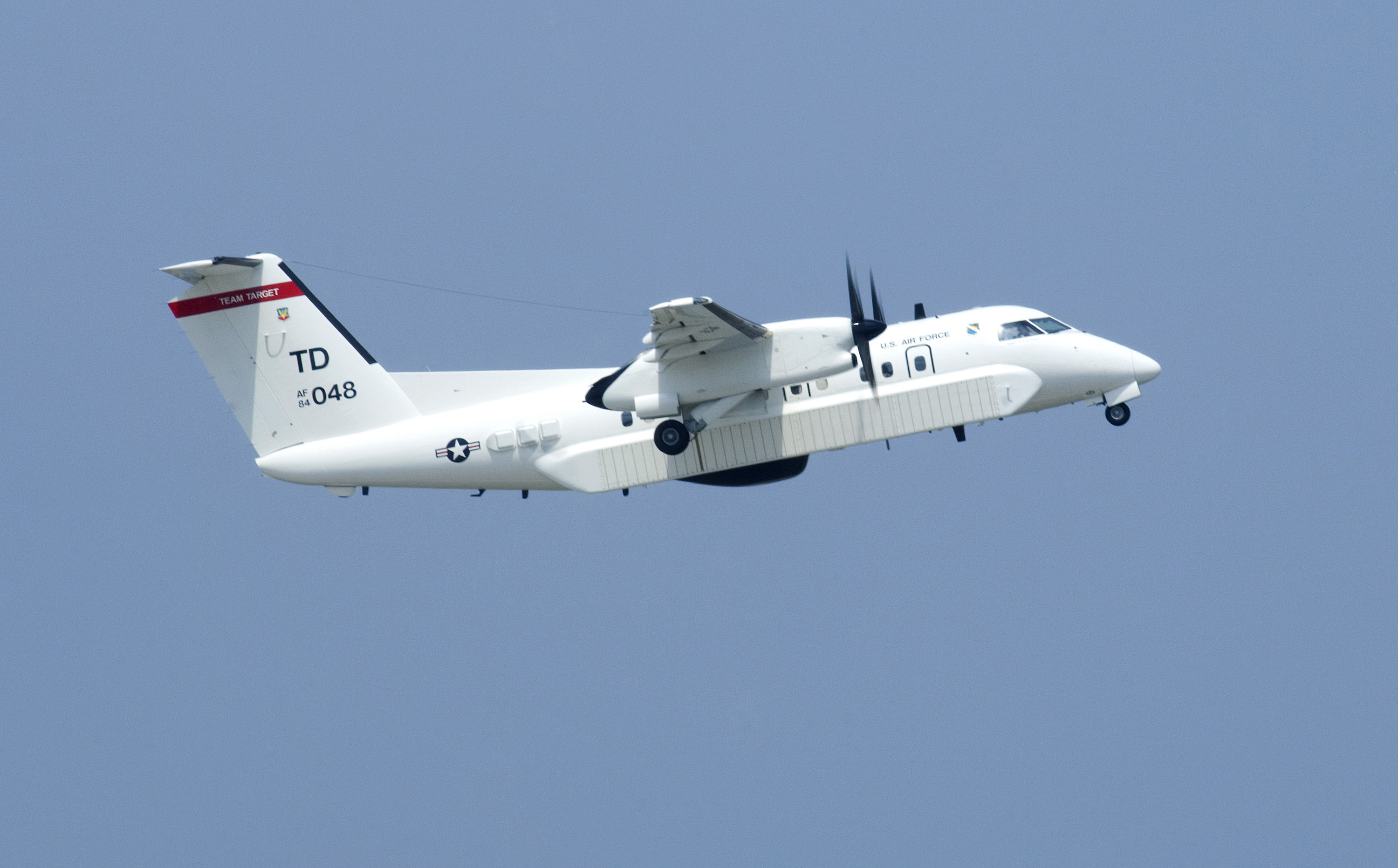 E-9A Widget aircraft 84-048 takes off from Tyndall Air Force Base, FL, during a Combat Archer training exercise. The E-9 Widget, a specialized military version of Bombardier Dash 8, is used as a surveillance platform over the Gulf of Mexico waters providing telemetry and radio relays in support of air-to-air weapons systems evaluations.